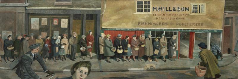 A large queue outside the fishmongers H.Hill and Son awaiting a delivery. A RAF on a bike is to the left, the head of a central figure looks to the viewer and a women is crossing the road to the right.